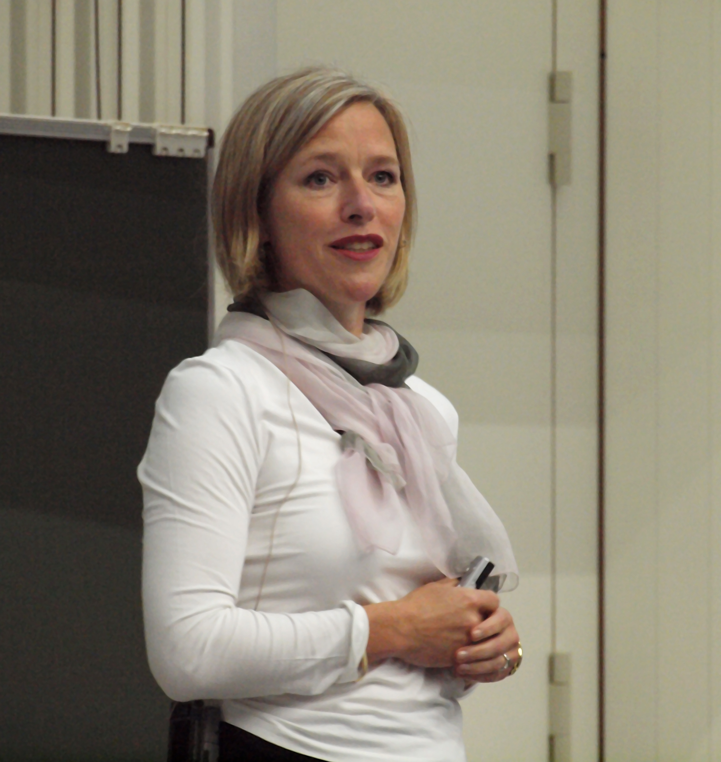 German biologist Julia Fischer giving a lecture in Mainz, Germany.